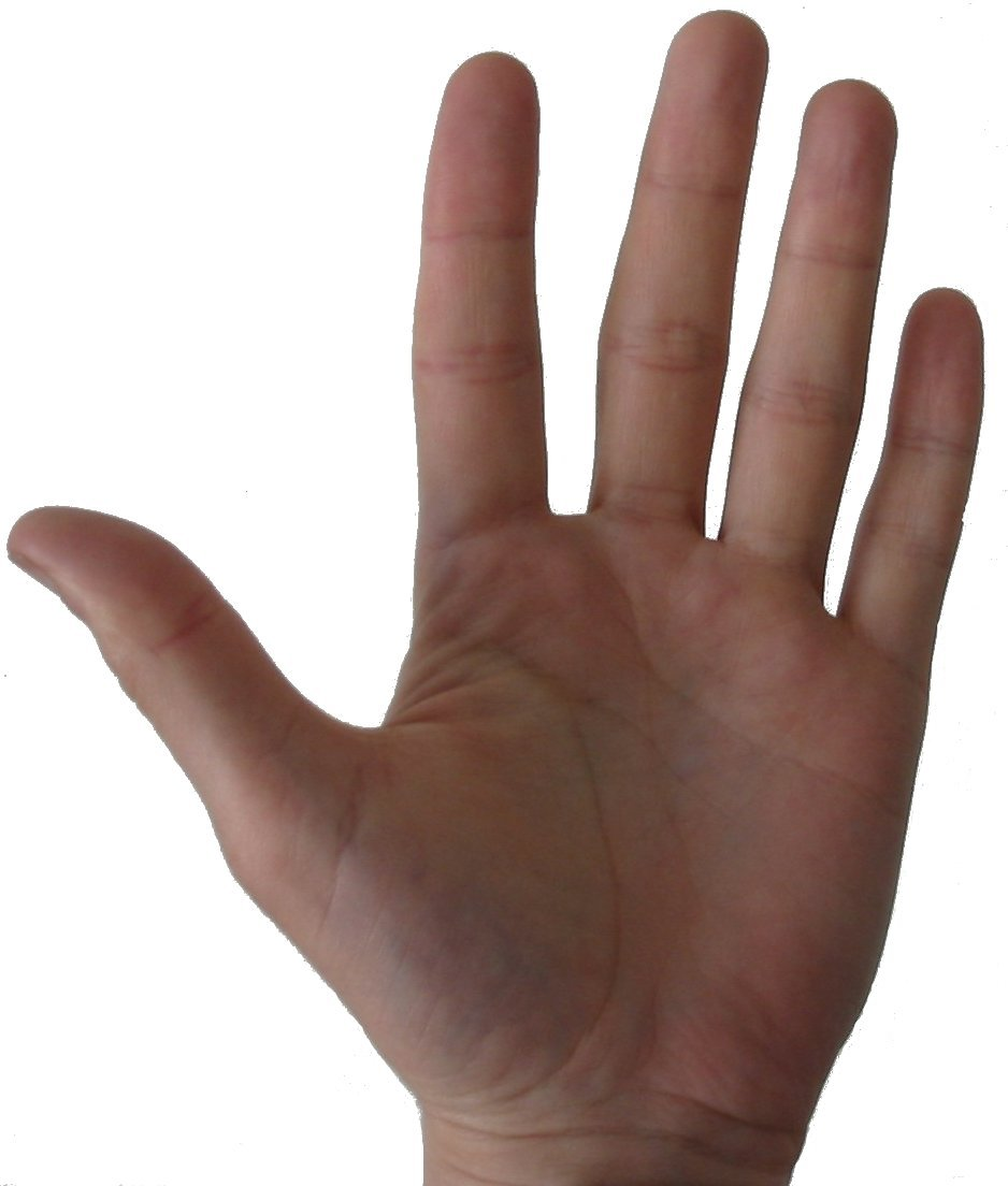 Hand